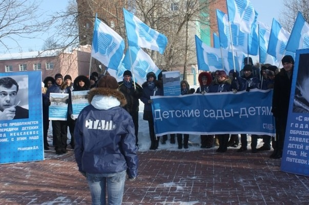 Project Steel, youth movement Nashi